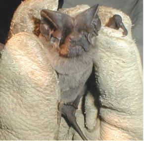 Pocketed Free-tailed Bat (Nyctinomops femorosaccus) The female pocketed free-tailed bat mates just prior to ovulation in the spring. It roosts in rocky areas – crevices, overhangs, and sometimes caves. At night it gives a loud, high-pitched call when it drops from its roost. It also calls frequently from its day roost. Body length: 98 - 118 mm Diet: Primarily moths, also ants, wasps, other insects